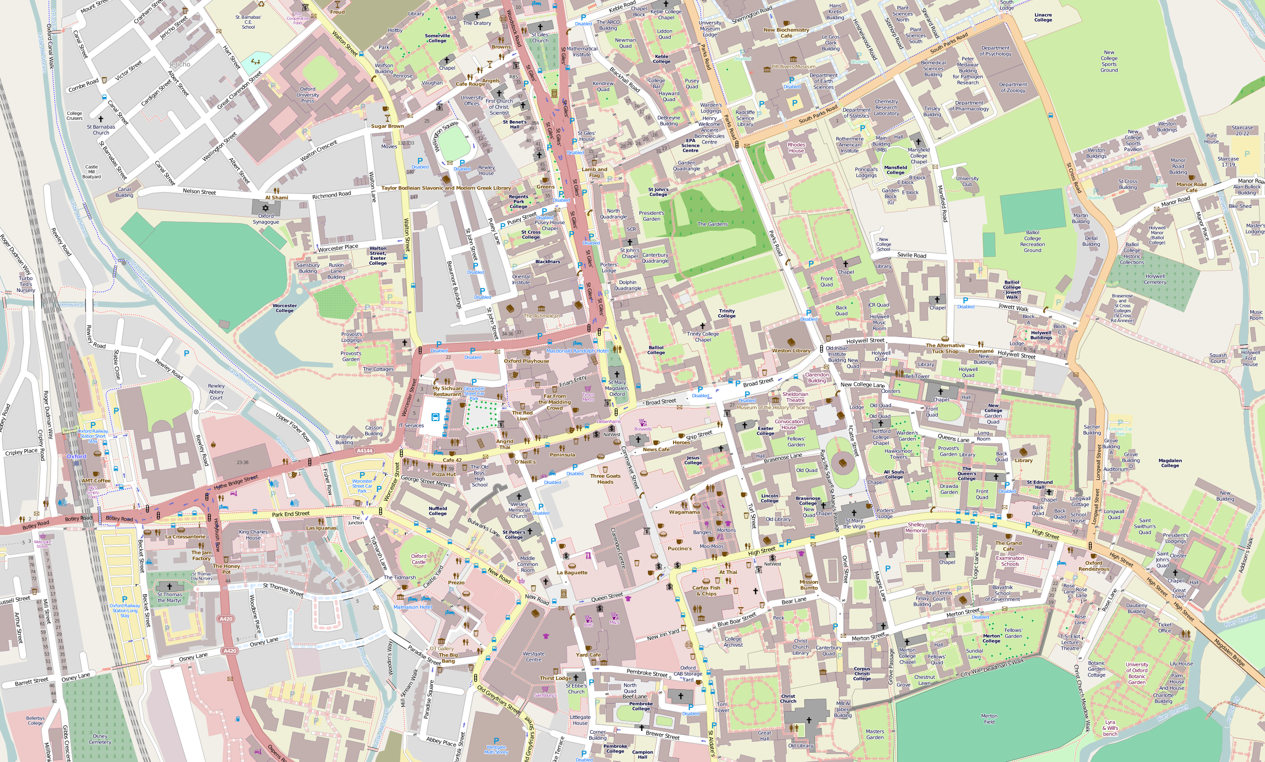 Map of Oxford N: 51.75971 S: 51.7495 W: -1.27096 E: -1.24639